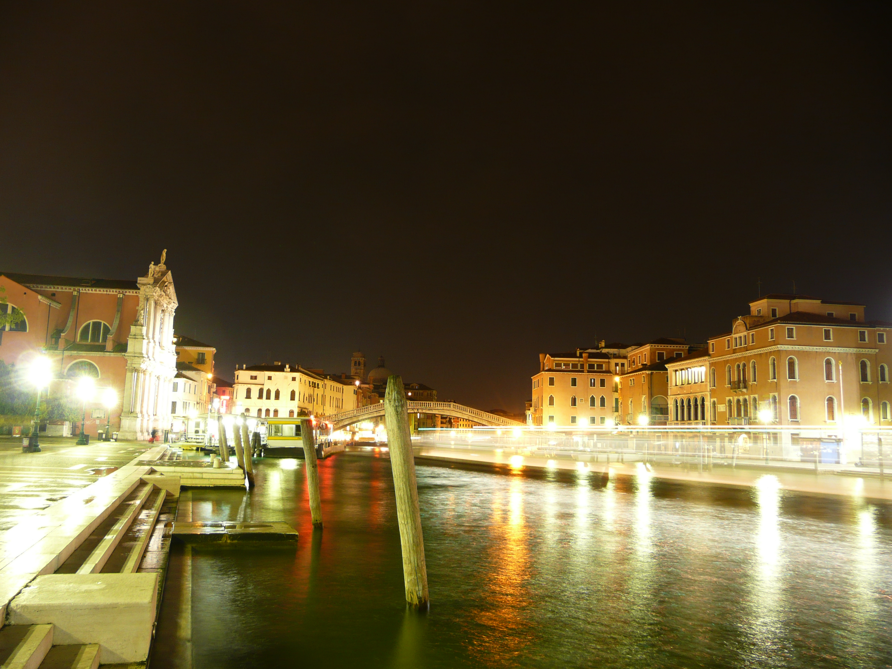 Canal Grande at night near Santa Lucia railway station.